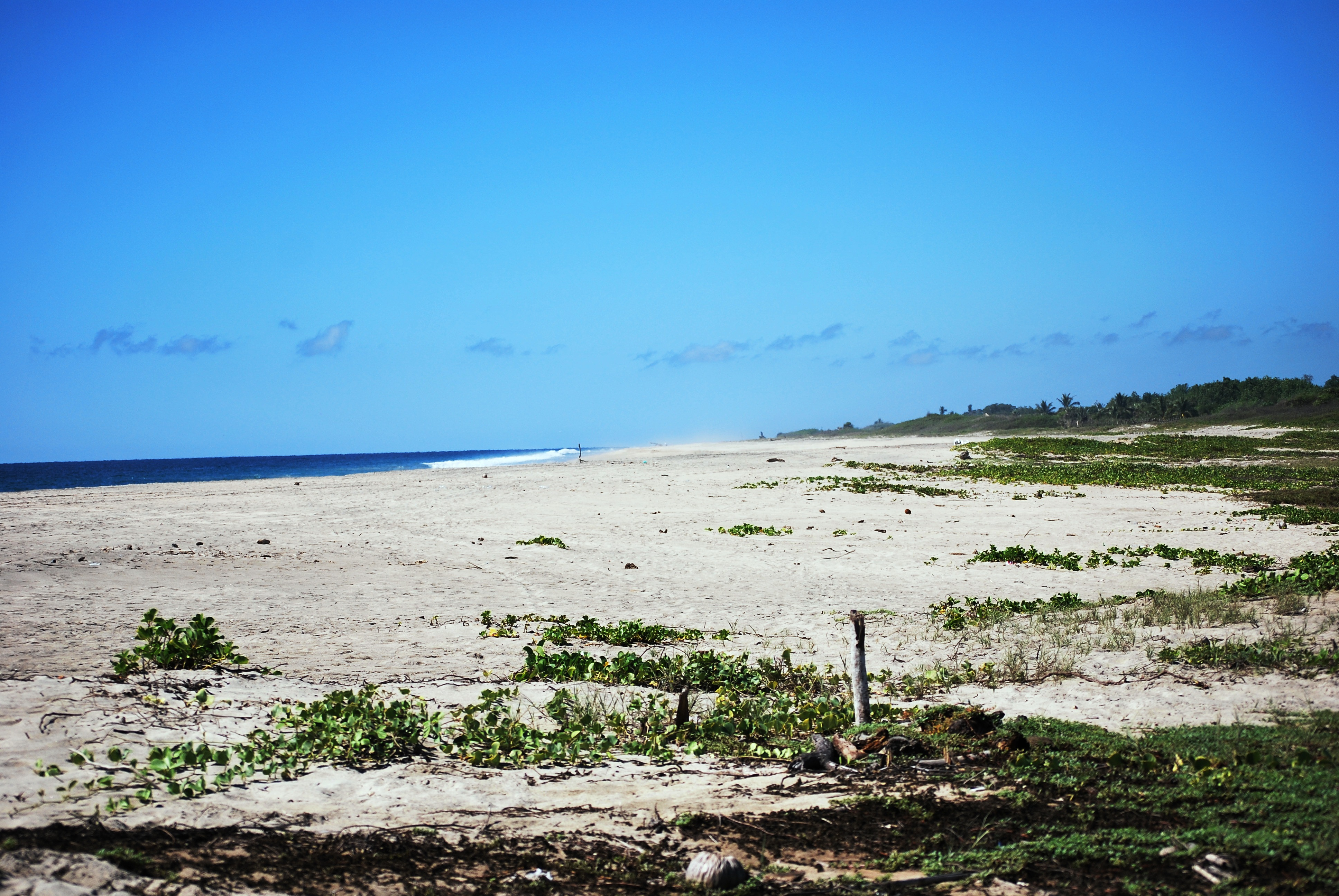 View of La Ventanilla Beach from near the entrance to the lagoon. in Tonameca, Oaxaca, Mexico